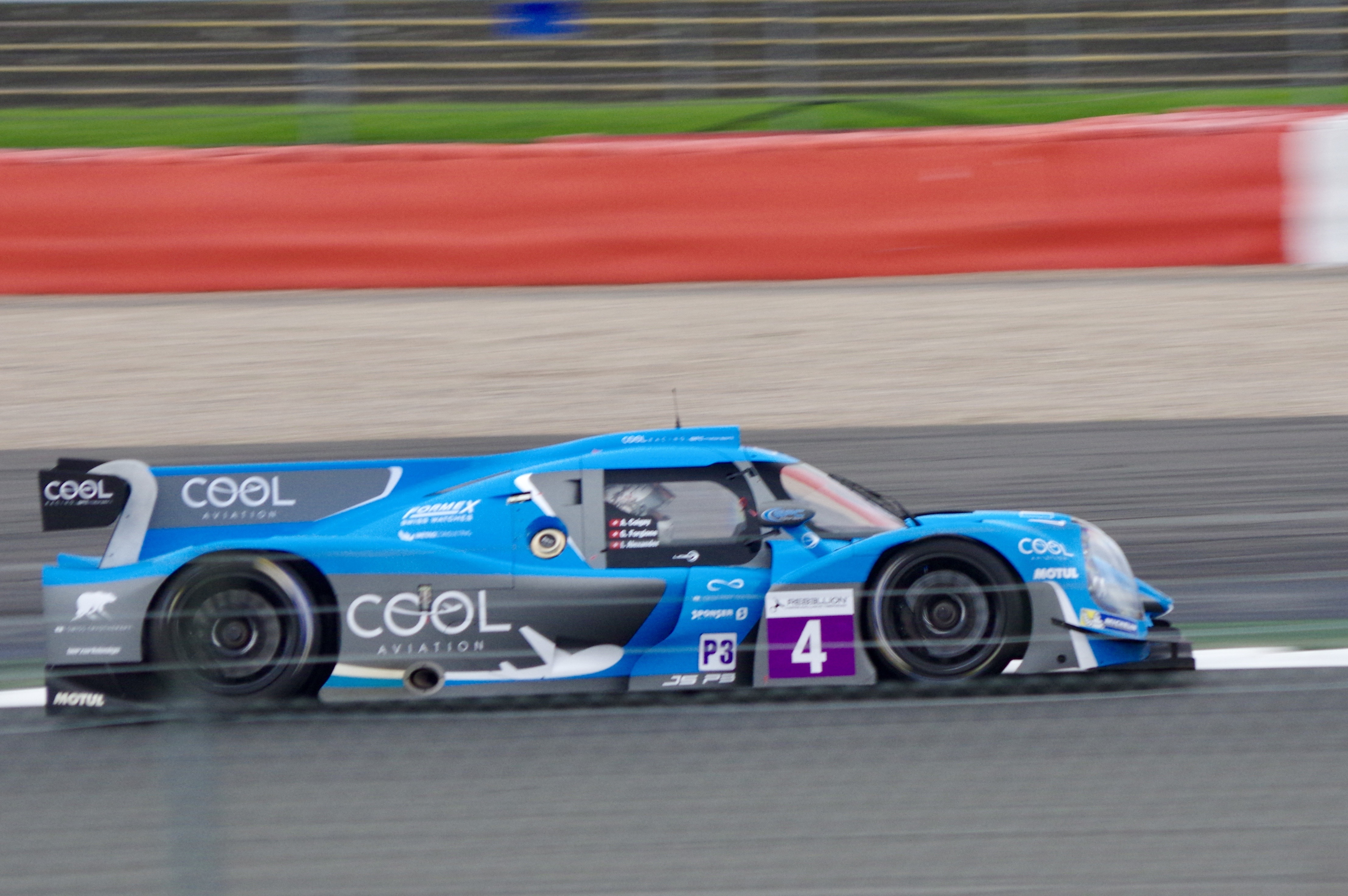 European Le Mans Series - The Four Hours of Silverstone